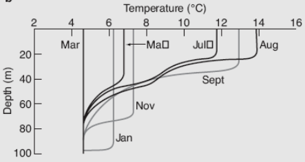 Own work